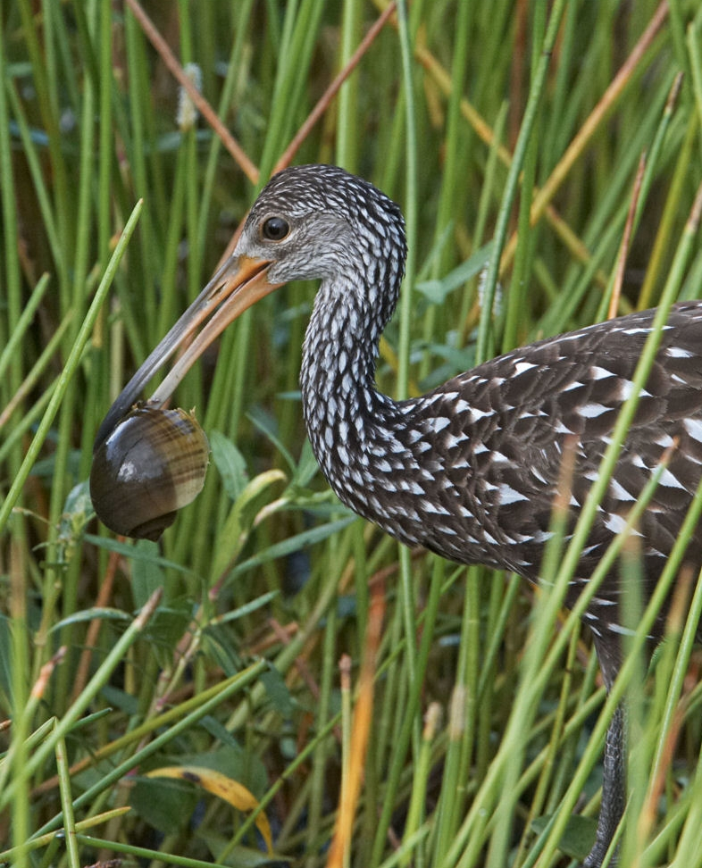 Limpkin with applesnail